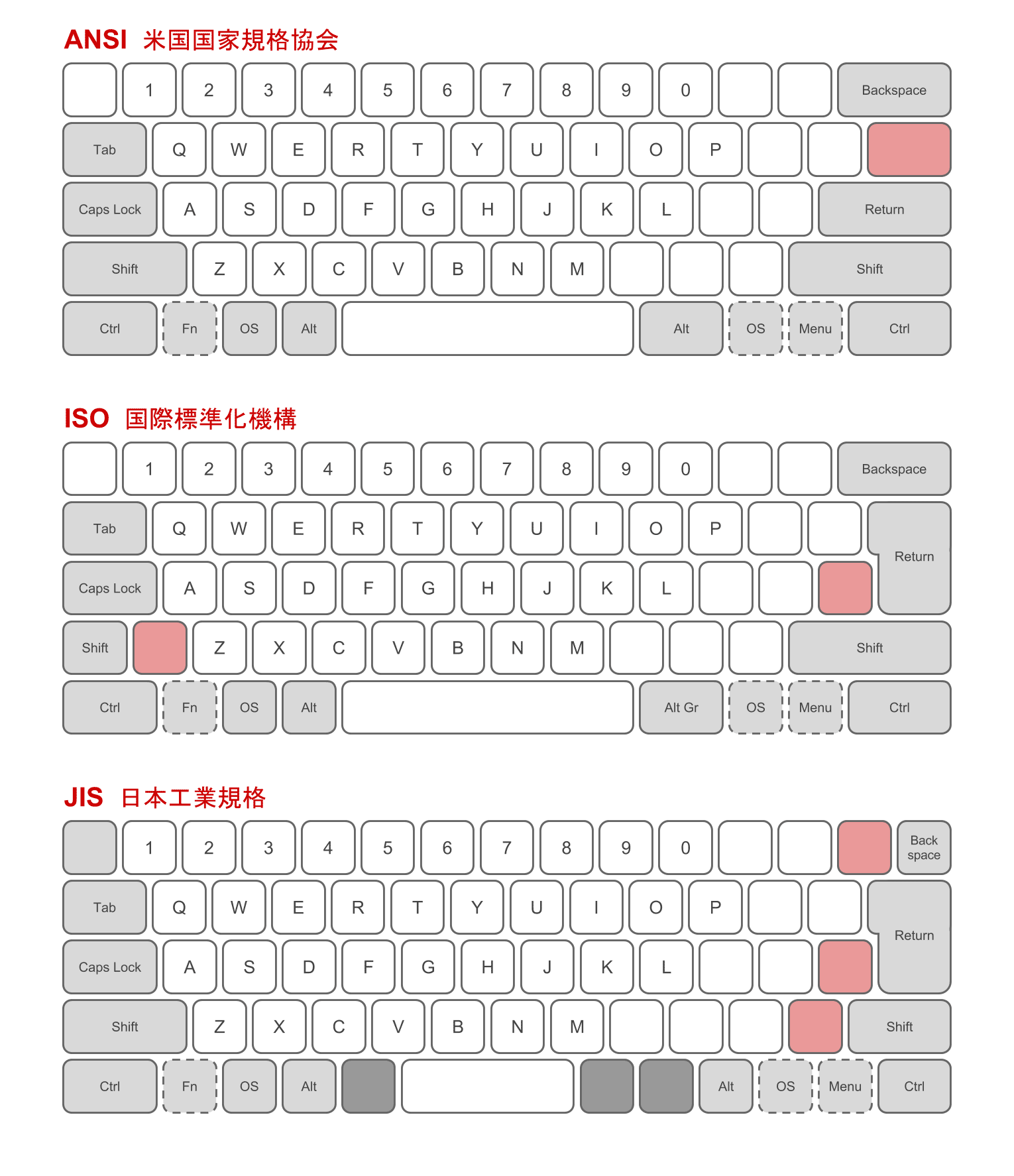 A comparison of three mechanical computer keyboard layout standards: ANSI (common in North America and Asia), ISO (common in Europe and Latin America), and JIS (used in Japan). Keys that are not present in all standards are highlighted in pink (alphanumeric) or dark-grey (other). Note that this image shows physical layouts as they most commonly appear and may not fully represent said standards. Note that the labels are only for general orientation and do not represent the visual layout of any country/language.